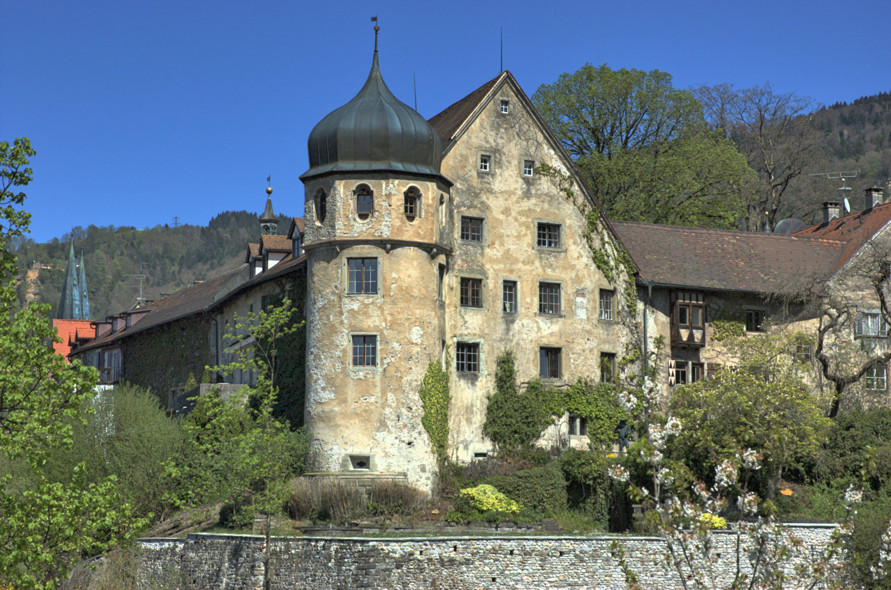 Deuringschlößle, ehemaliger Carolenhof